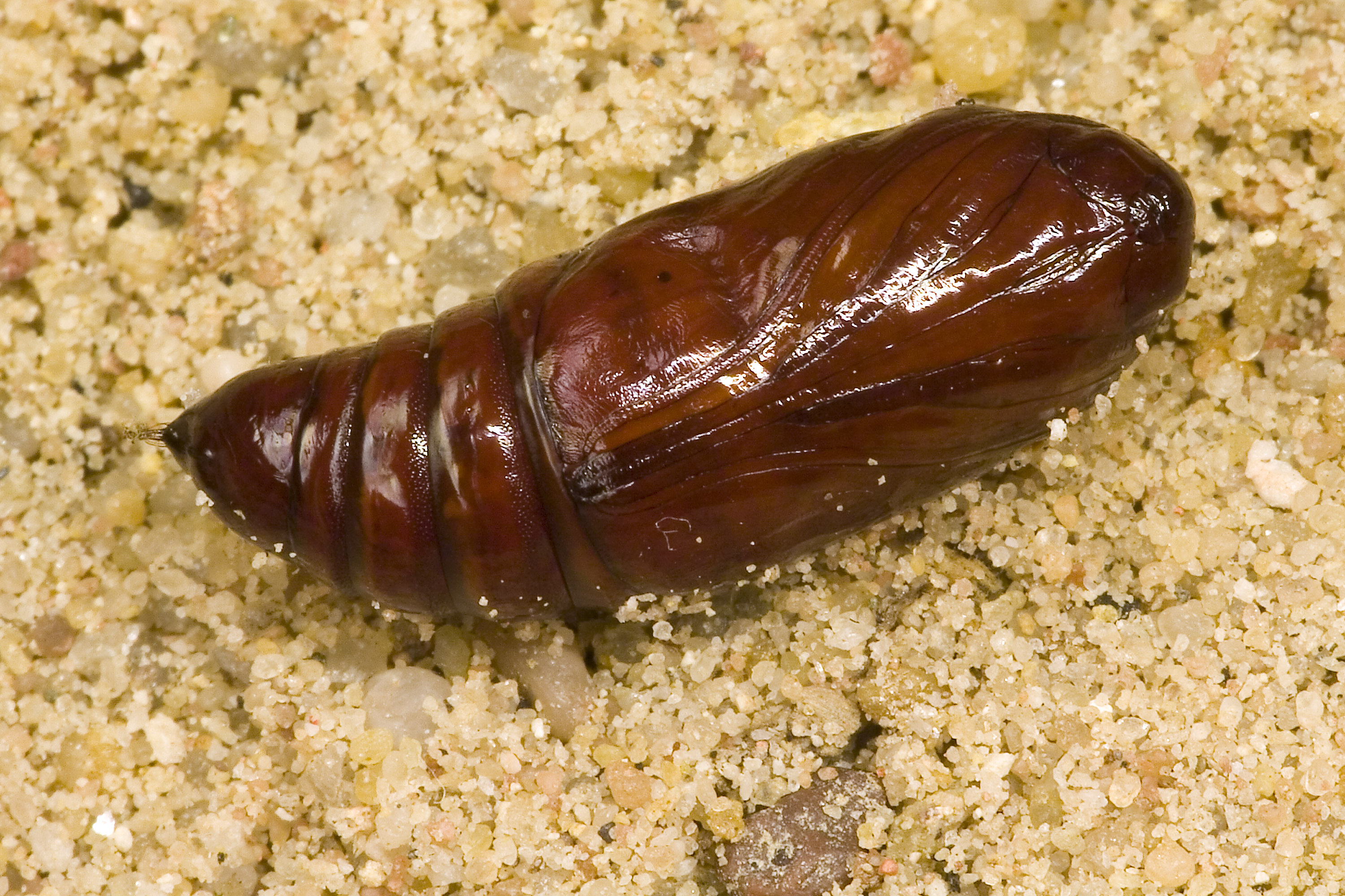 Angle Shades, Phlogophora meticulosa (Linnaeus, 1758), pupa